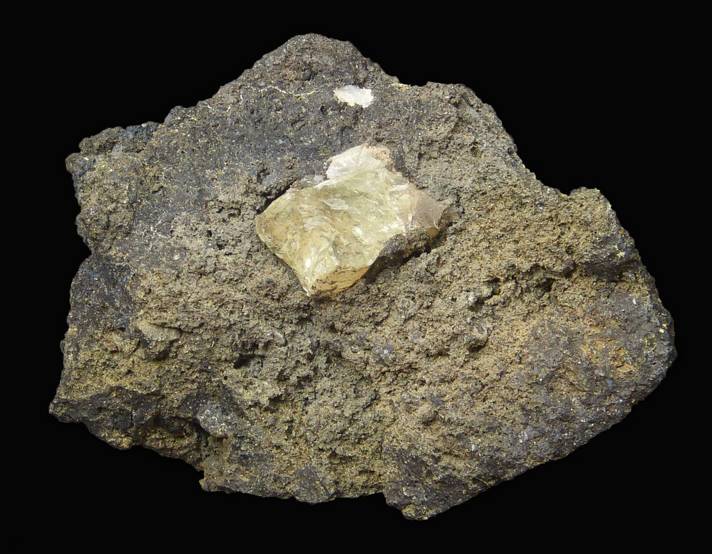 xenolito